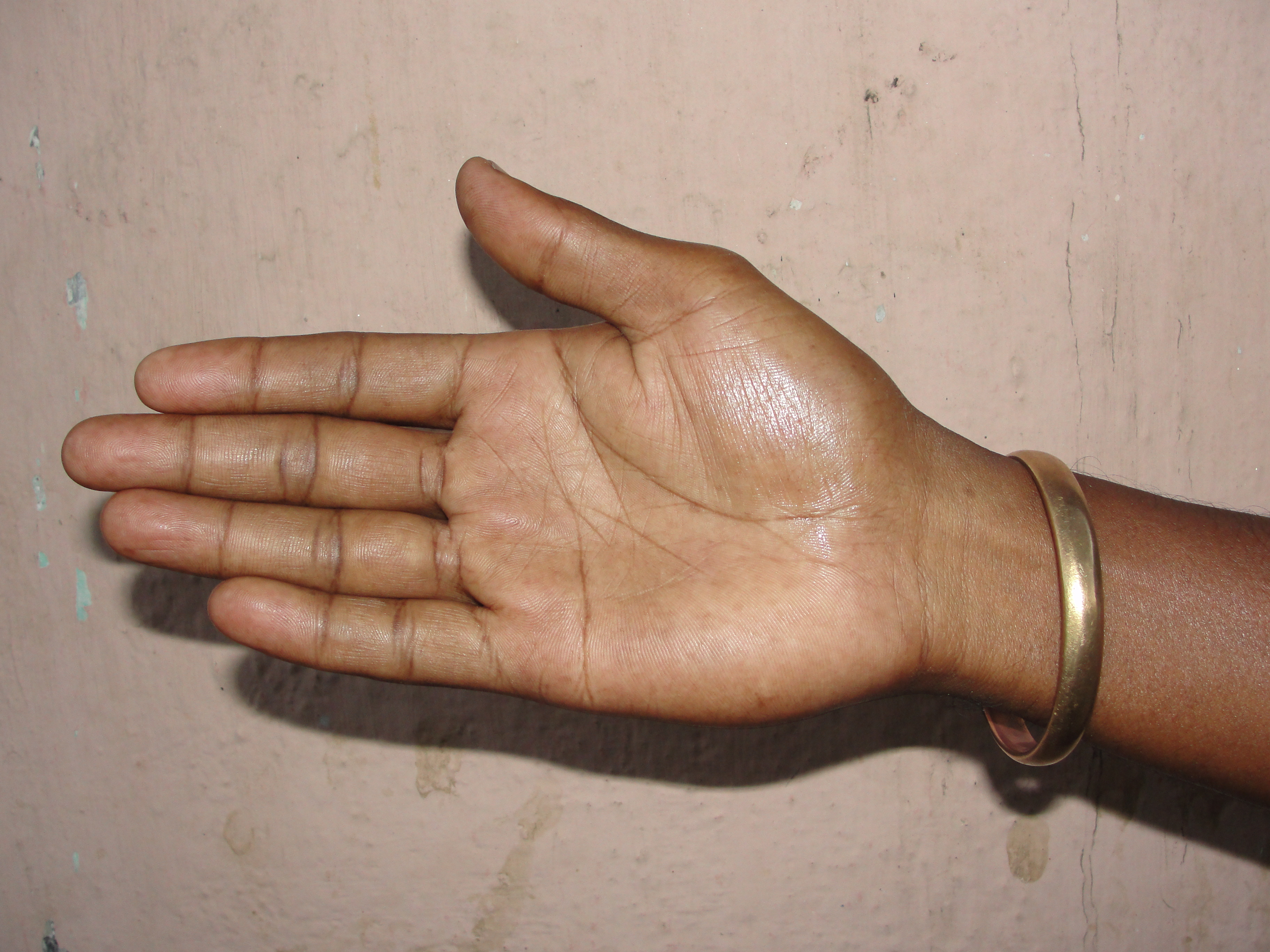 A hand ornamental braceletUnknown காப்பு